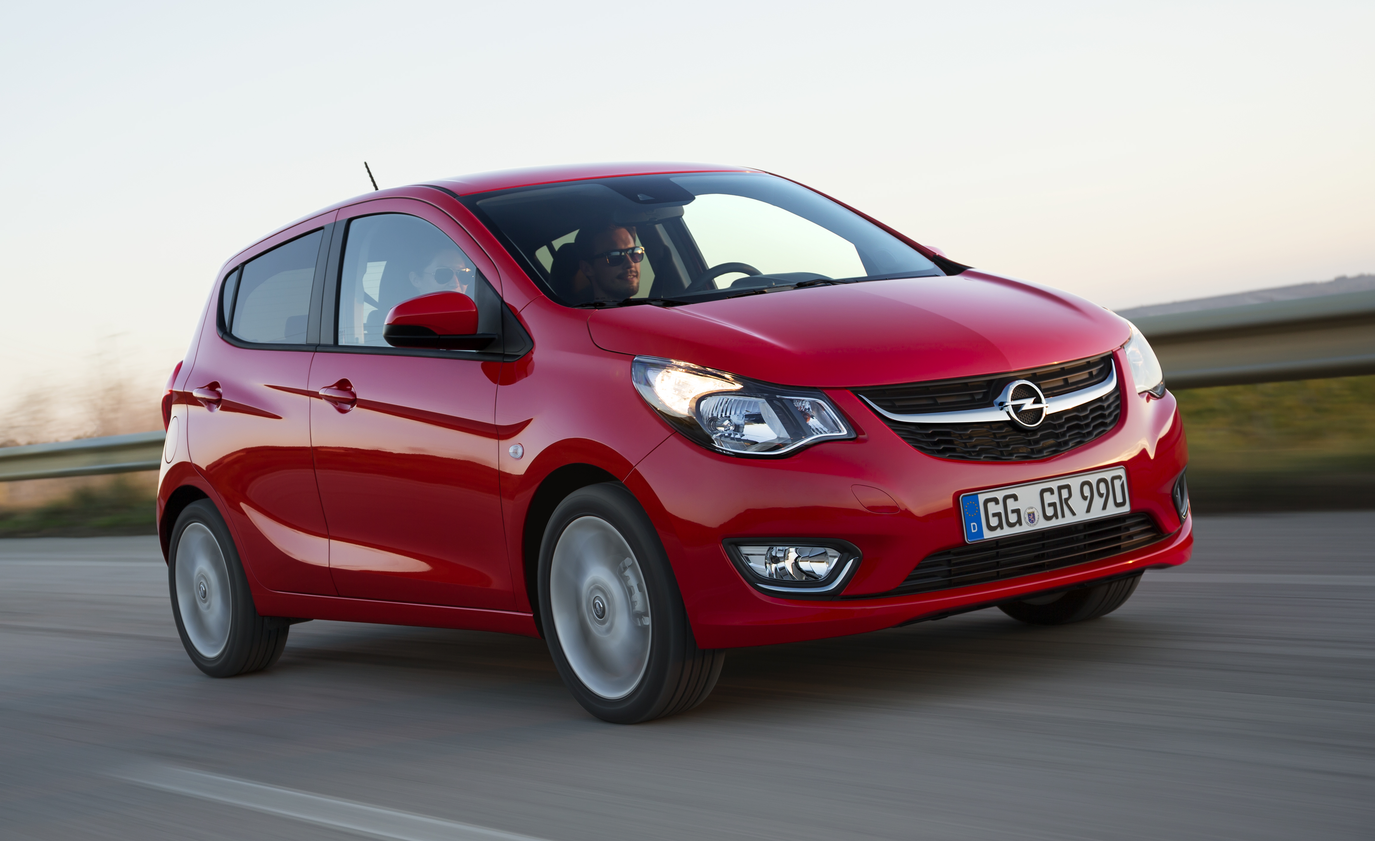 Opel KARL